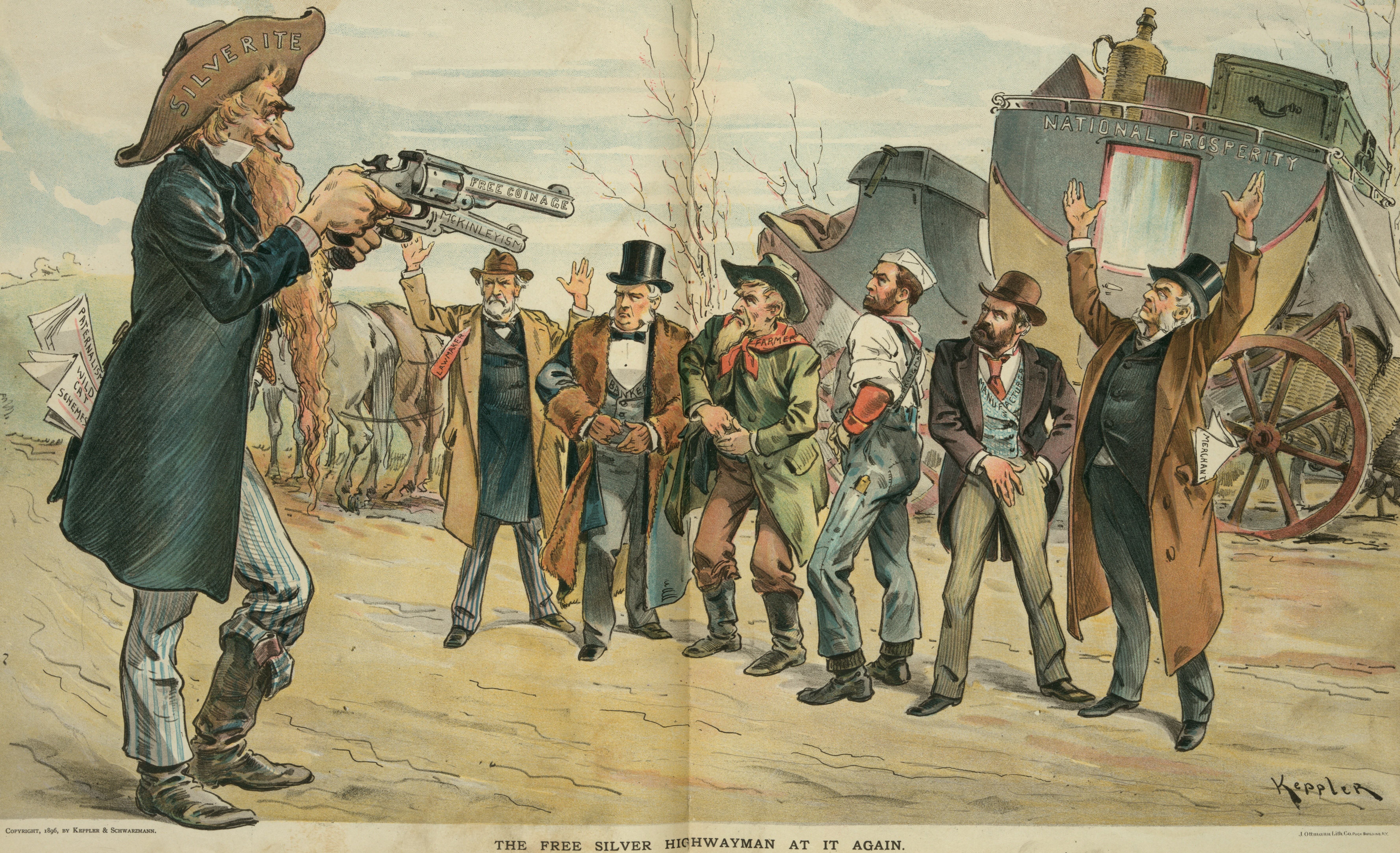 Title: The free silver highwayman at it again / Keppler. Abstract/medium: 1 print : chromolithograph.